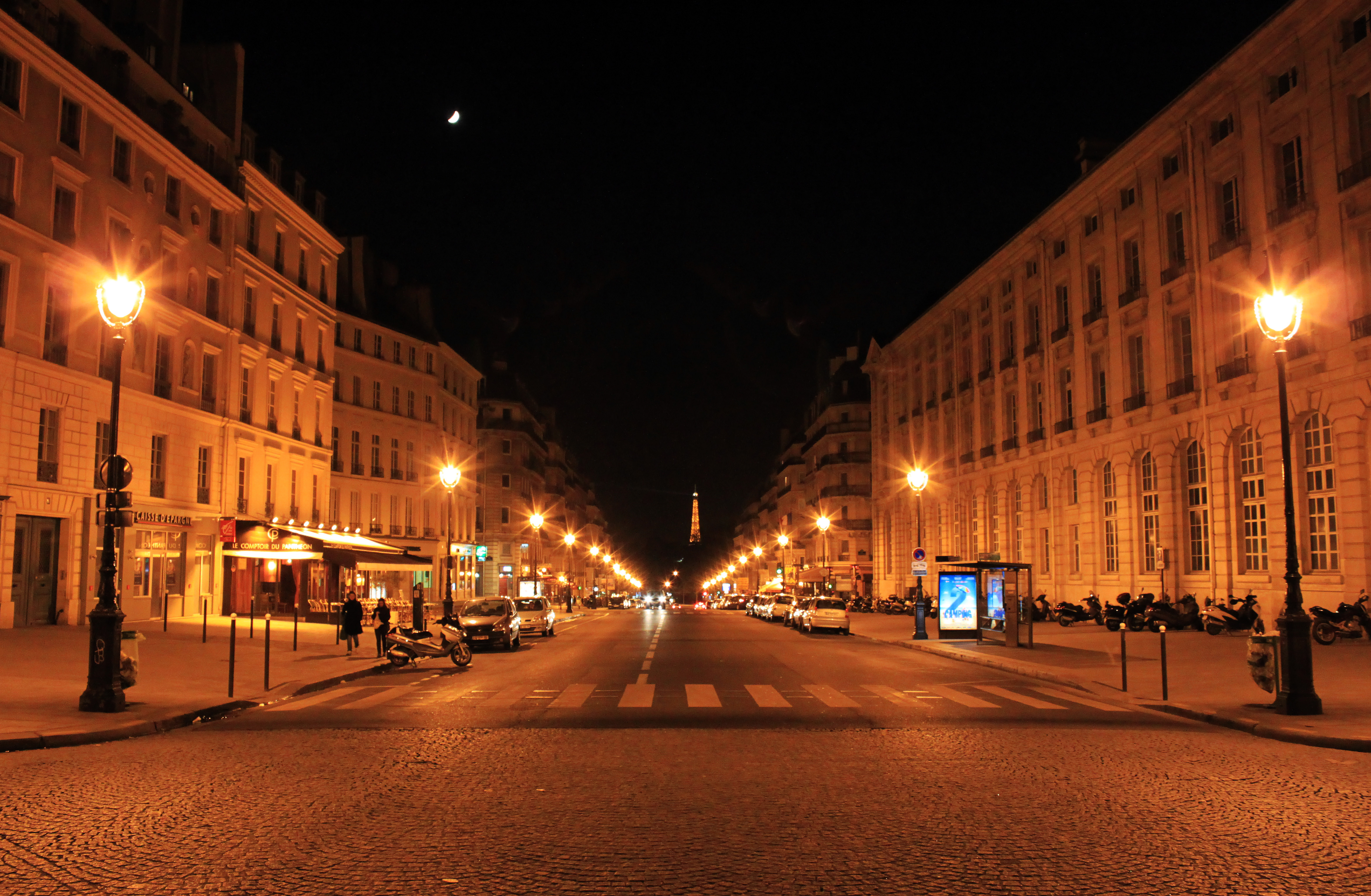 Rue Soufflot by night, Paris.